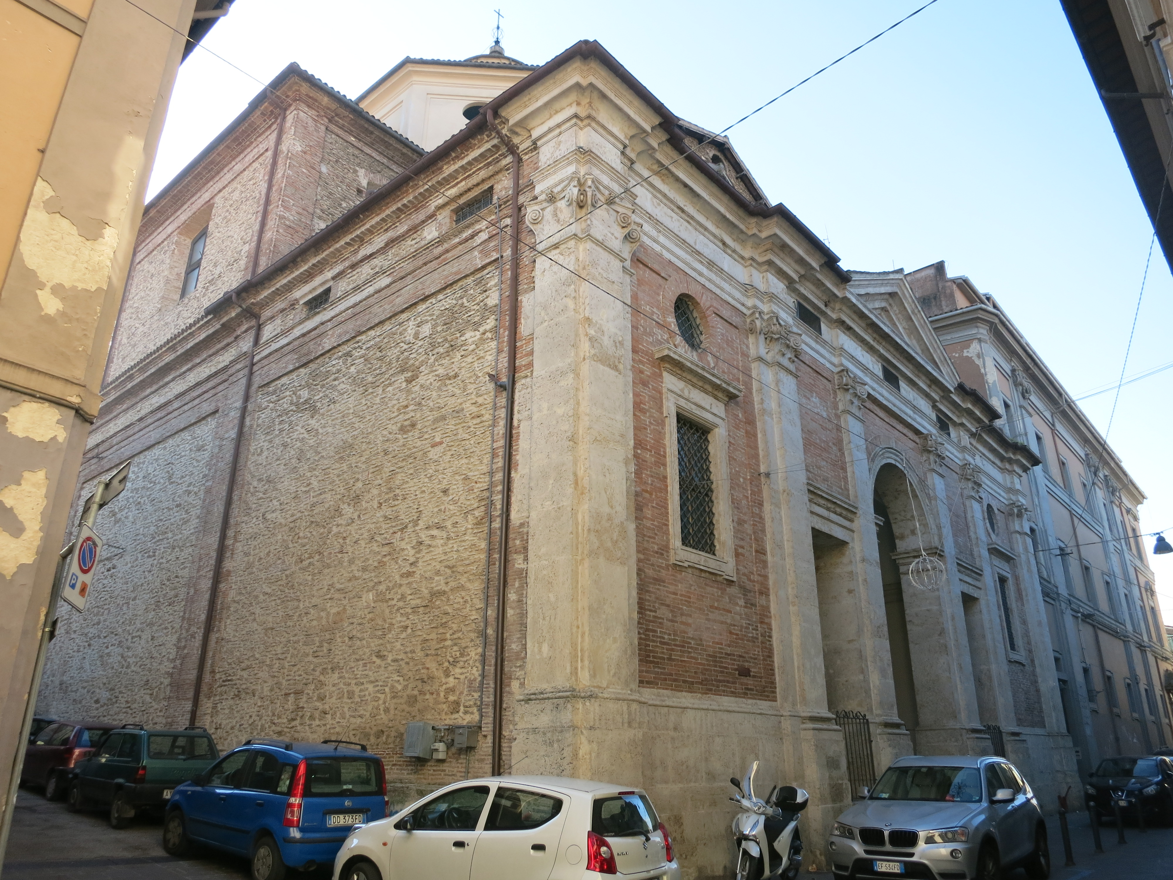 Former church of Santa Scolastica, that now houses the Varrone Auditorium - Rieti (Lazio, Italy)